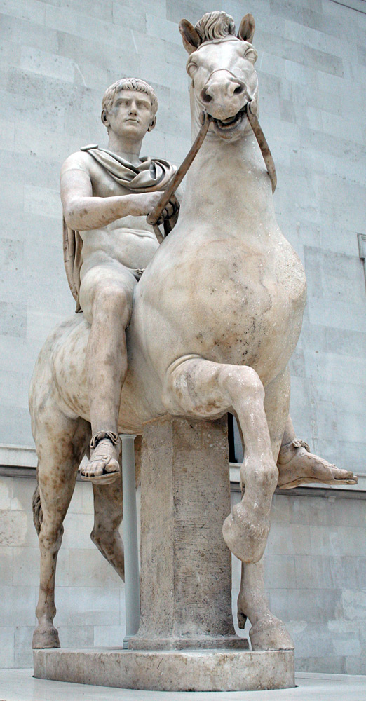 Marble statue of a youth on horseback, believed to represent a member of the Julio-Claudian dynasty. On display in the British Museum, London. See also [1] By ChrisO, 18 June 2006